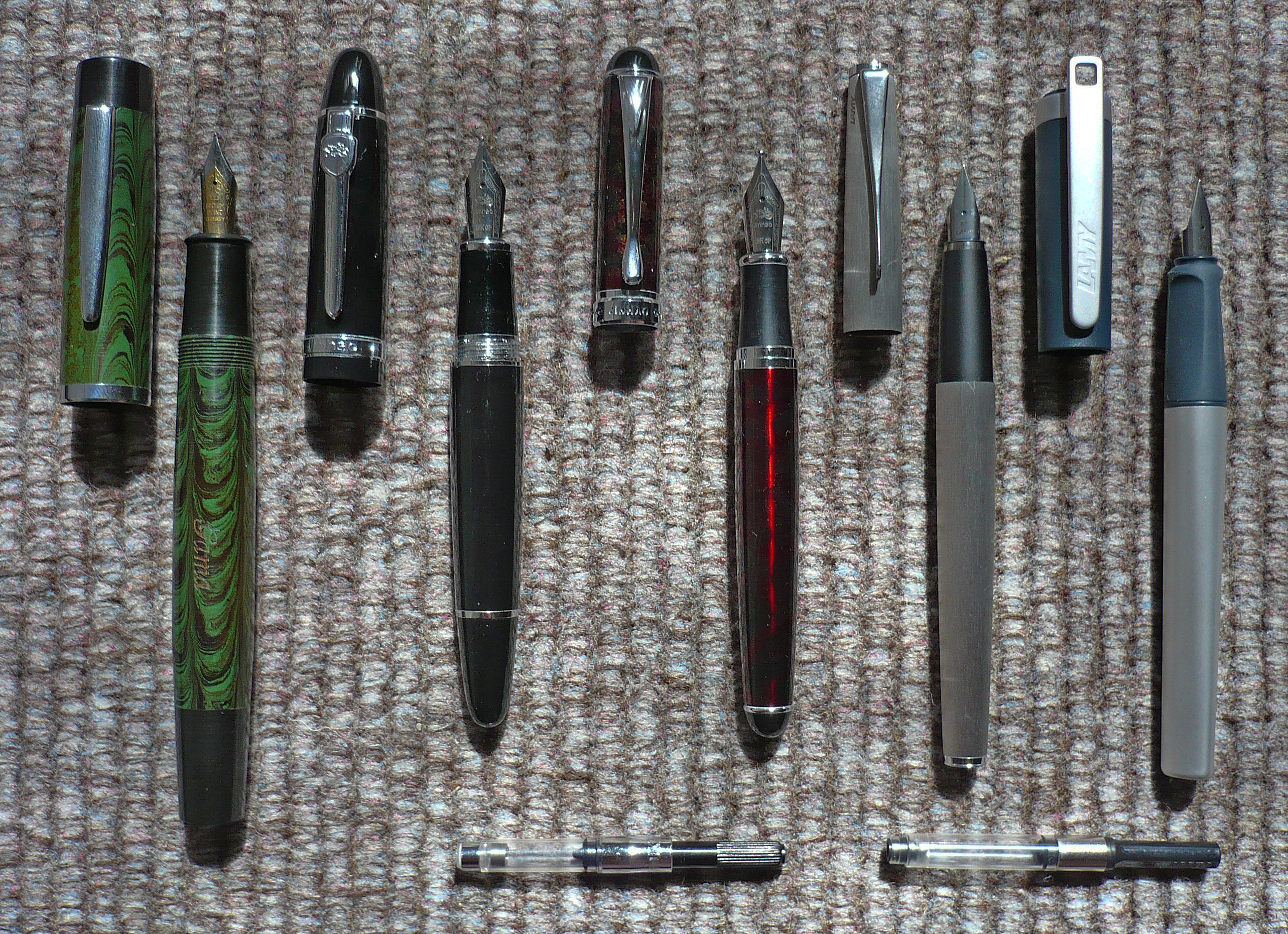 Fountain pens and converters. Left to right: Gama Supreme Flat Top handmade ebonite eyedropper (India), Jinhao 159 (China), Jinhao X750 (China), Lamy Studio stainless (Germany), Lamy Nexx M (Germany). The Jinhao pens use an international standard converter (bottom left). The Lamy pens use a proprietary Lamy converter (bottom right).